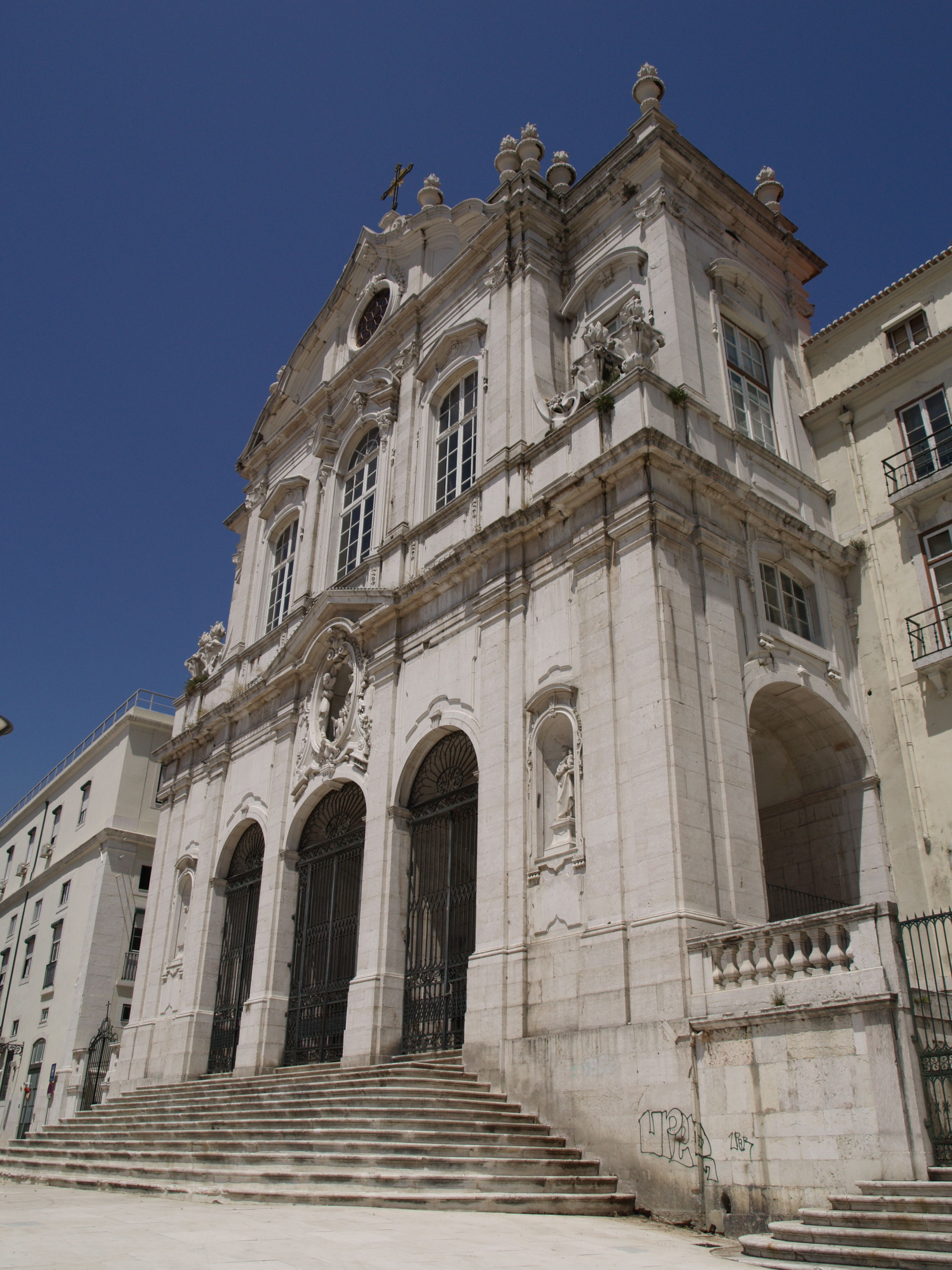 This file was uploaded for Wiki Loves Monuments in Portugal with the unique identifier 73709.